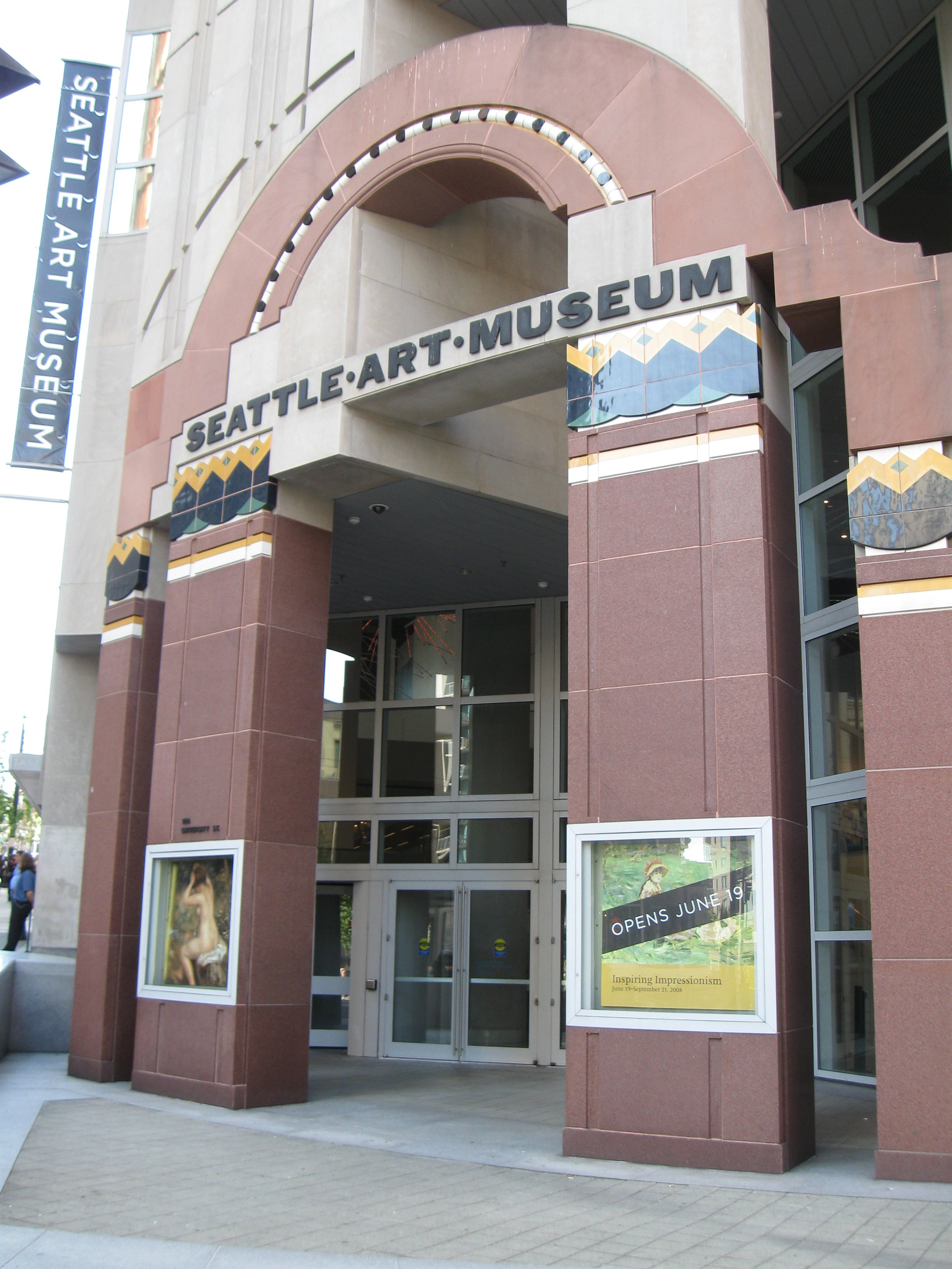 Seattle Art Museum south entrance